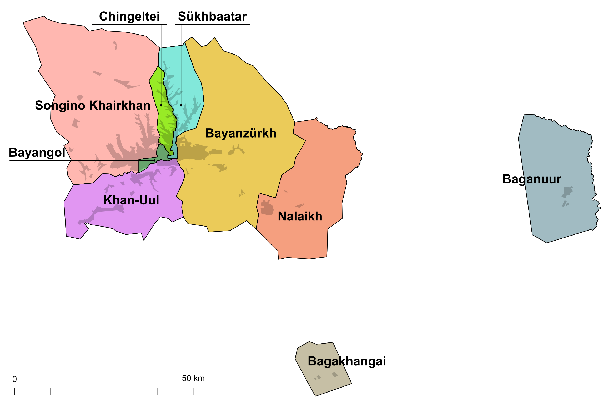 Map of Ulaanbaatar, created by Bogomolov.PL; using various mapping resources